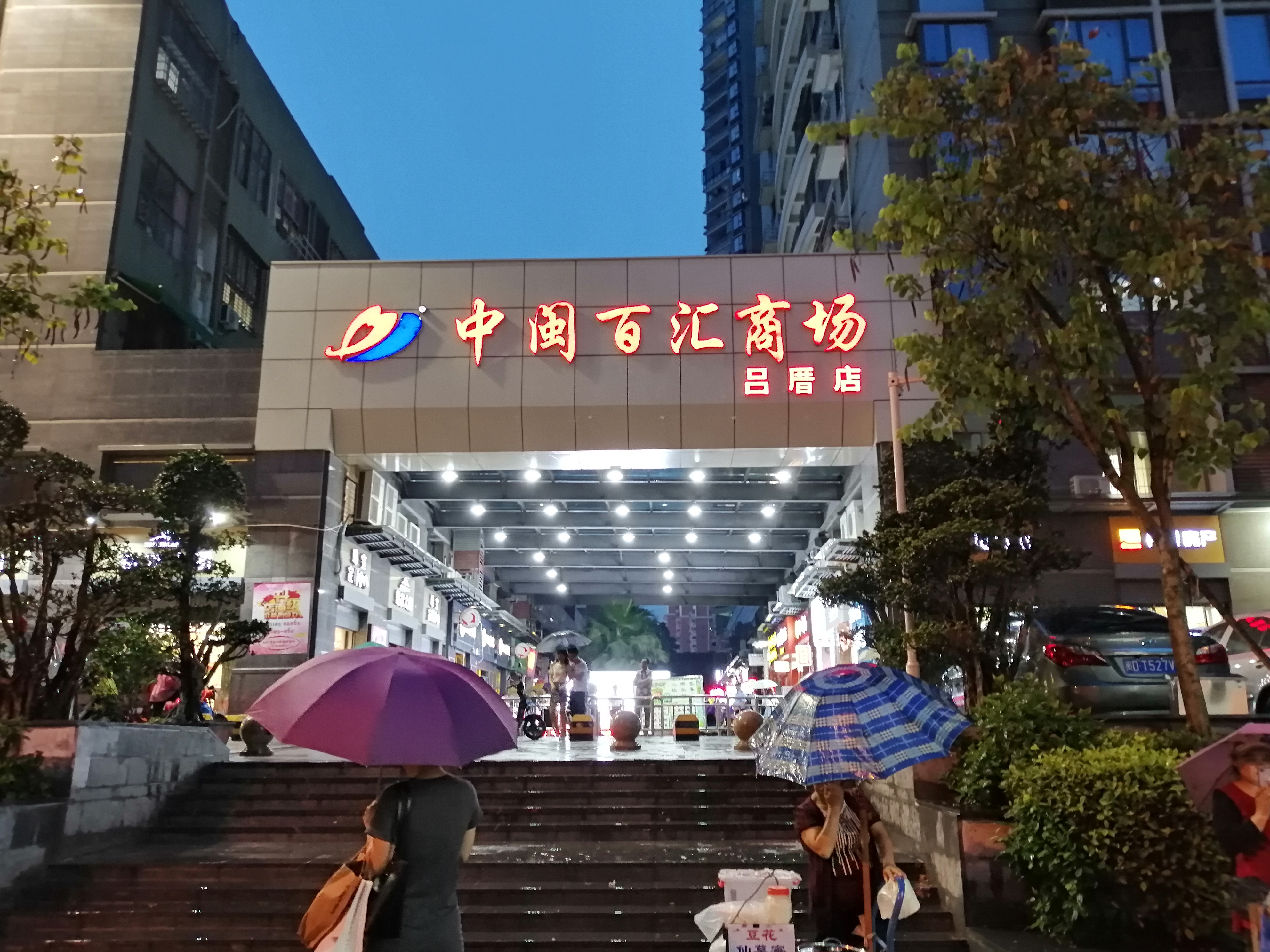 Lücuo store of Zhongmin Baihui Department Store. Just near the metro station... 中文（中国大陆）: 中闽百汇商场吕厝店，位于地铁口附近